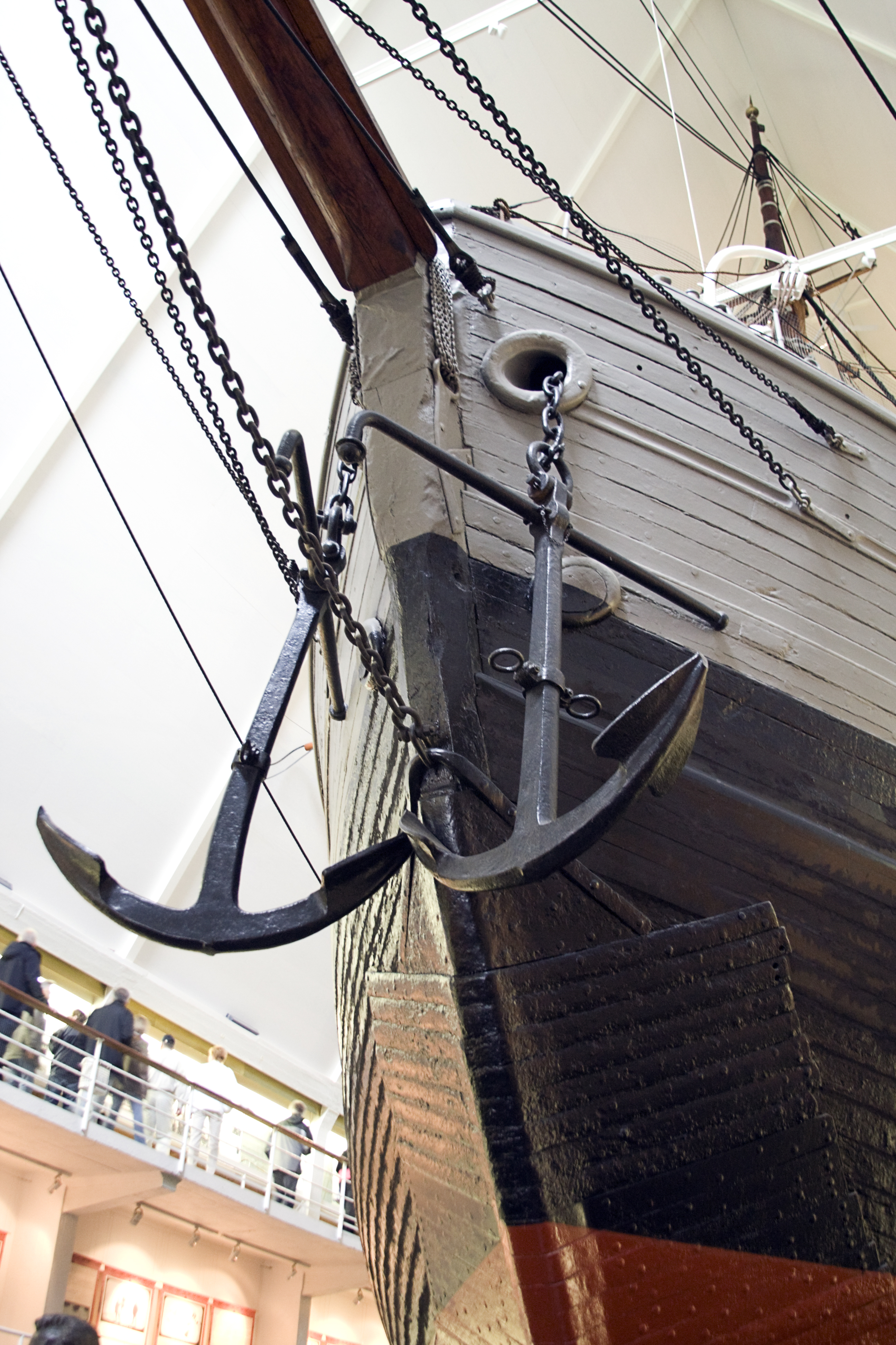 Prow of the ship Fram, now in the Fram Museum, Oslo, Norway